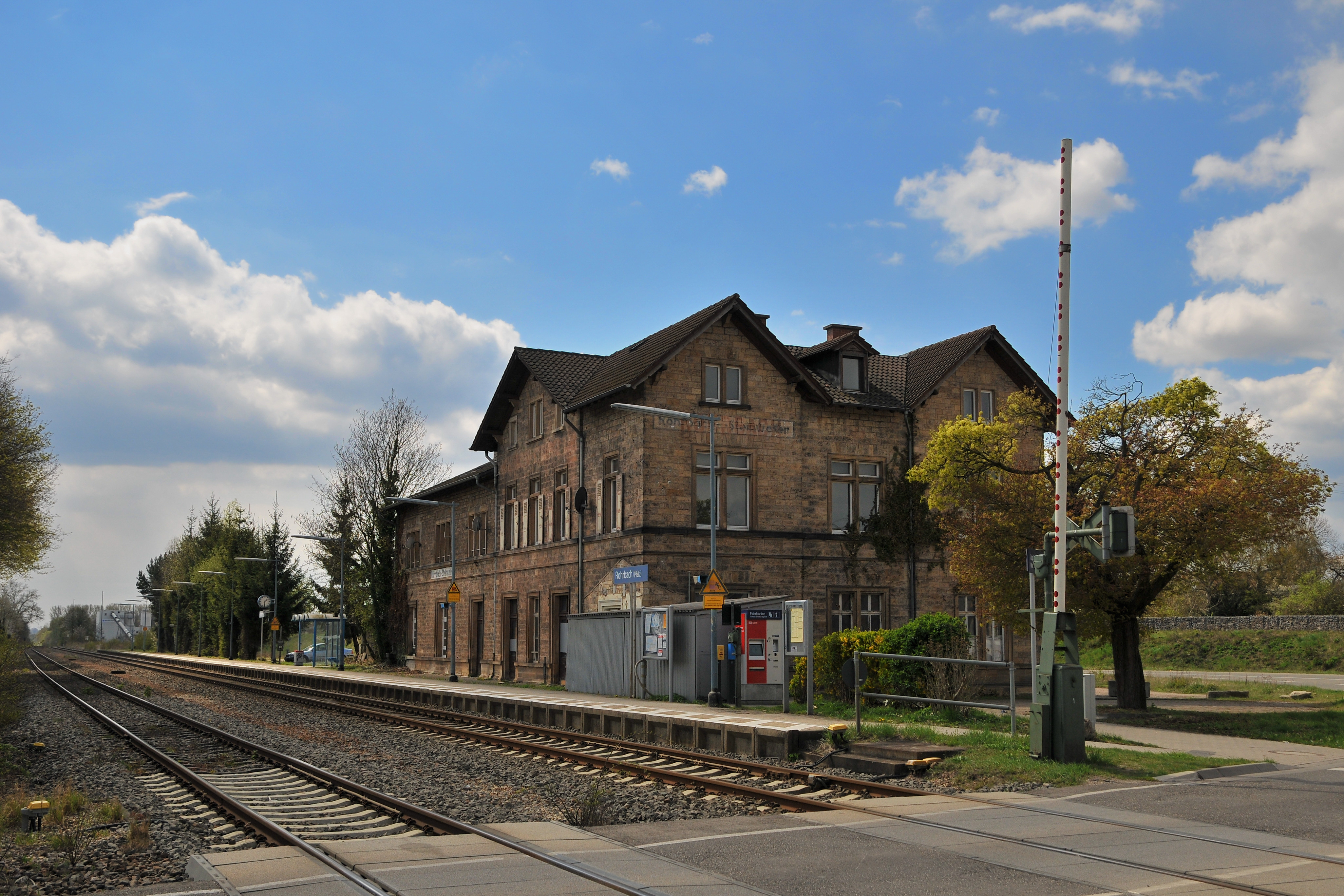 Trainstation of Rohrbach in Palatinate